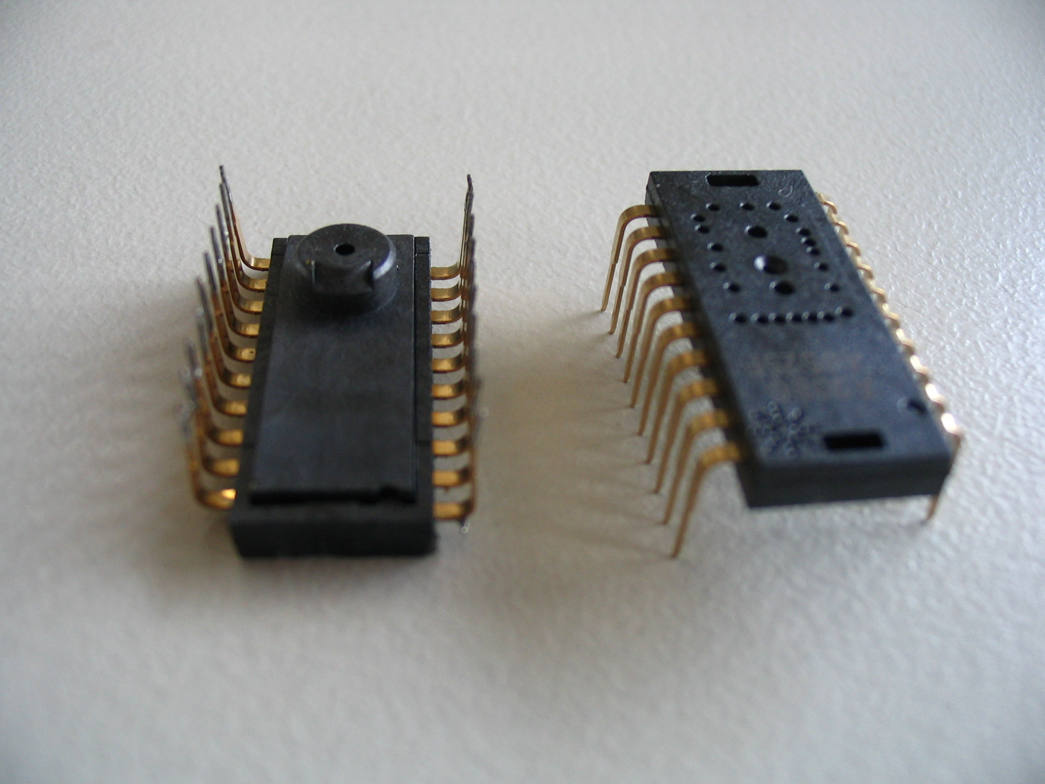 Optical Mouse Senors Chips, Agilent ADNS-3080